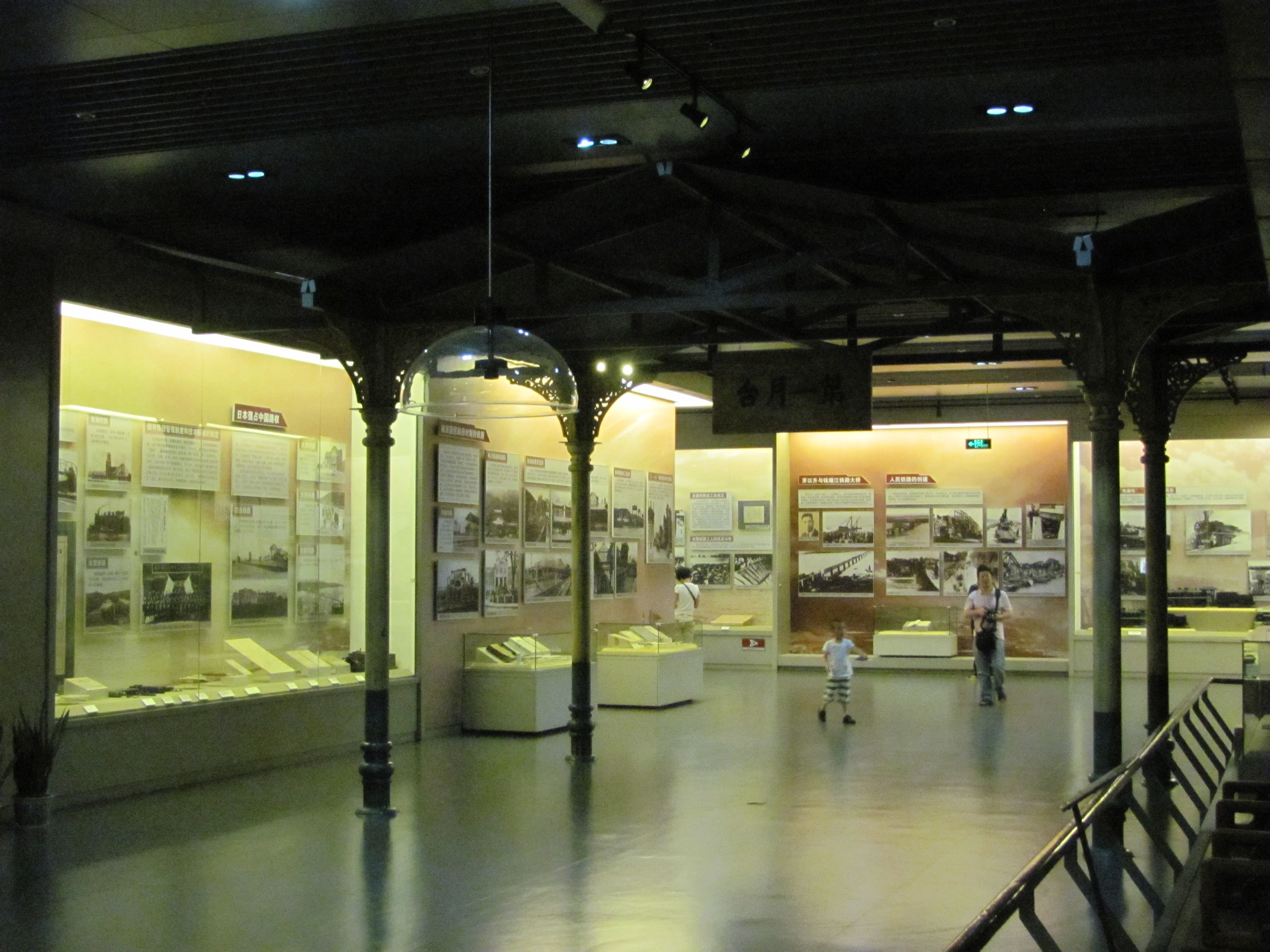 Beijing Railway Museum interior